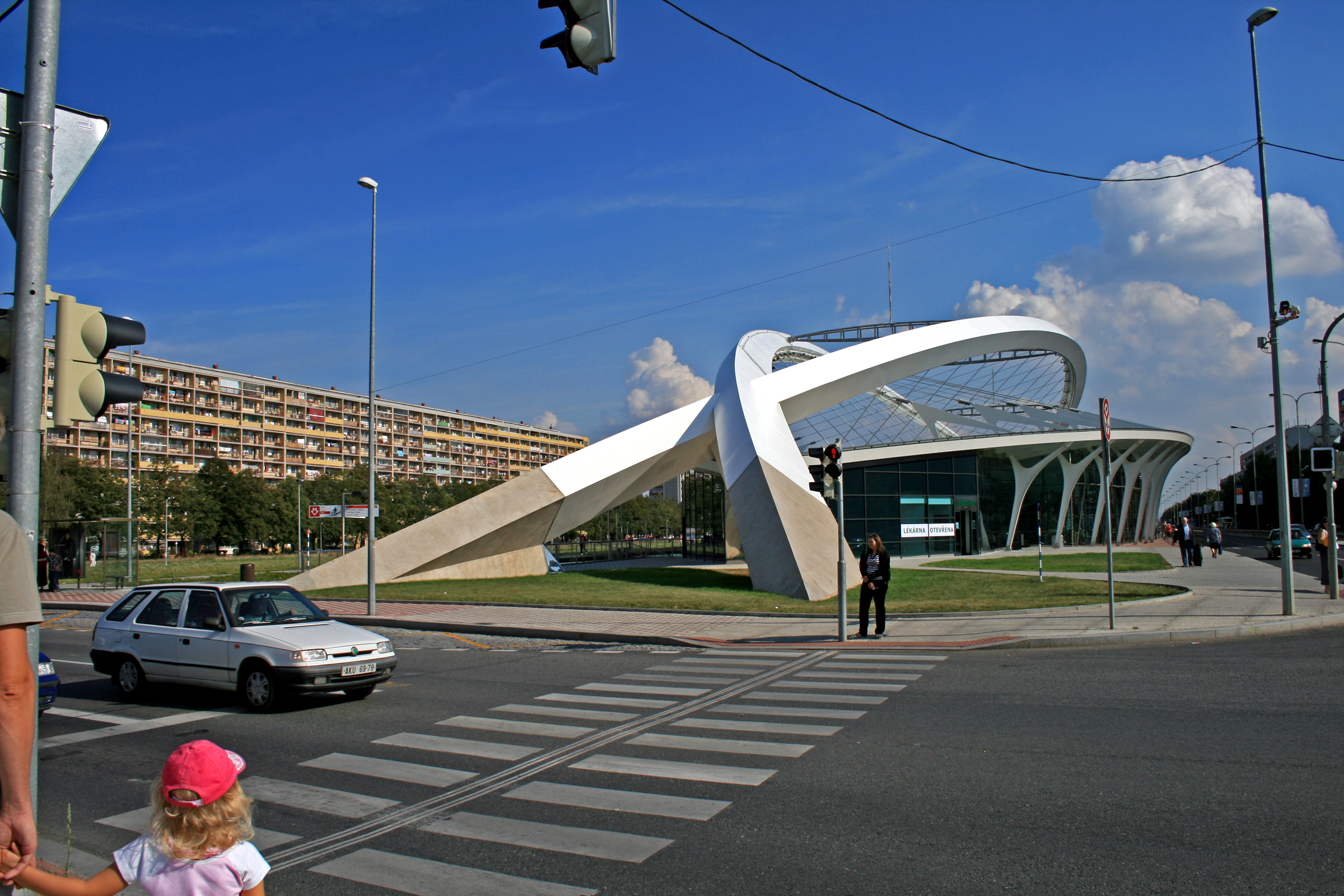 Prague Metro station Střížkov